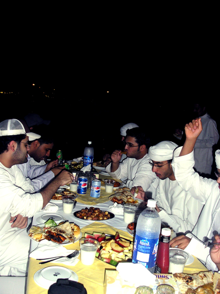 the IEEE studnets branch in Etisalat University College organized an iftar in al mamzar park in Dubai, that was in Wed 25th Oct 2005. 53 students attend the activity with 3 of the acadmic stuff. el7amdella we enjoyed it =)our IEEE students branch in ramadn iftar